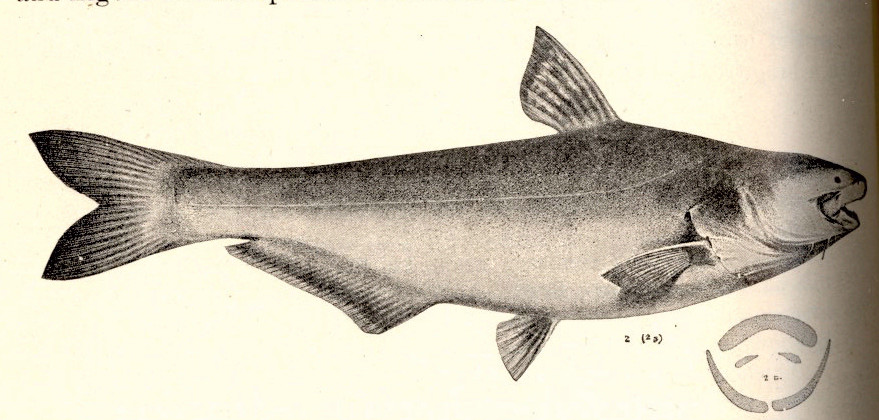 Paracetopsis occidentalis Subject: Catfishes Tag: Fish